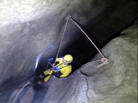 A caver descending one of the many small pitches in Simpson Pot, Kingsdale in North Yorkshire, England.